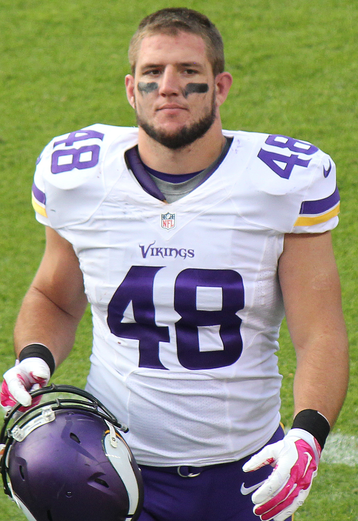 Zach Line, a player in the National Football League.